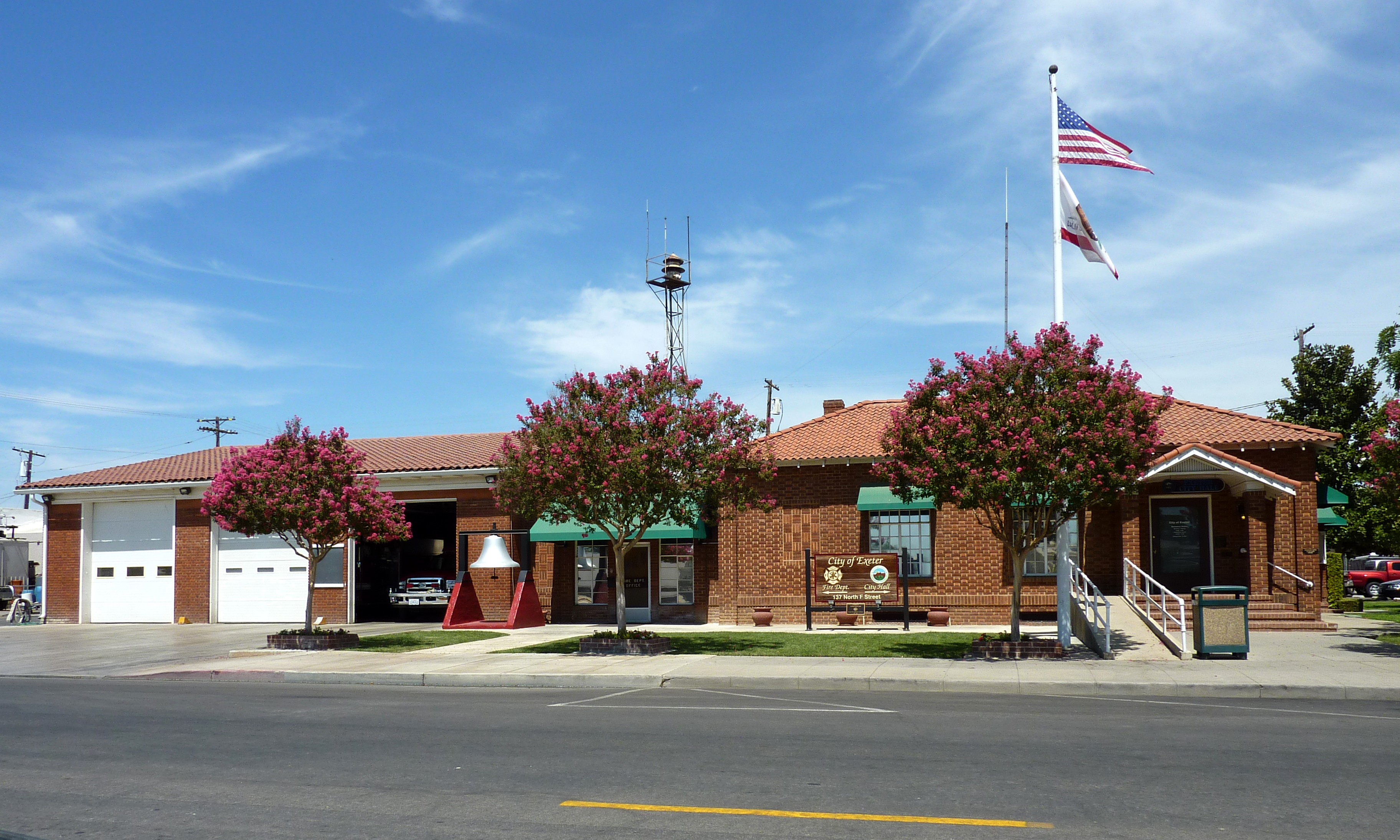 Fire hall and City Hall, Exeter, California, USA.